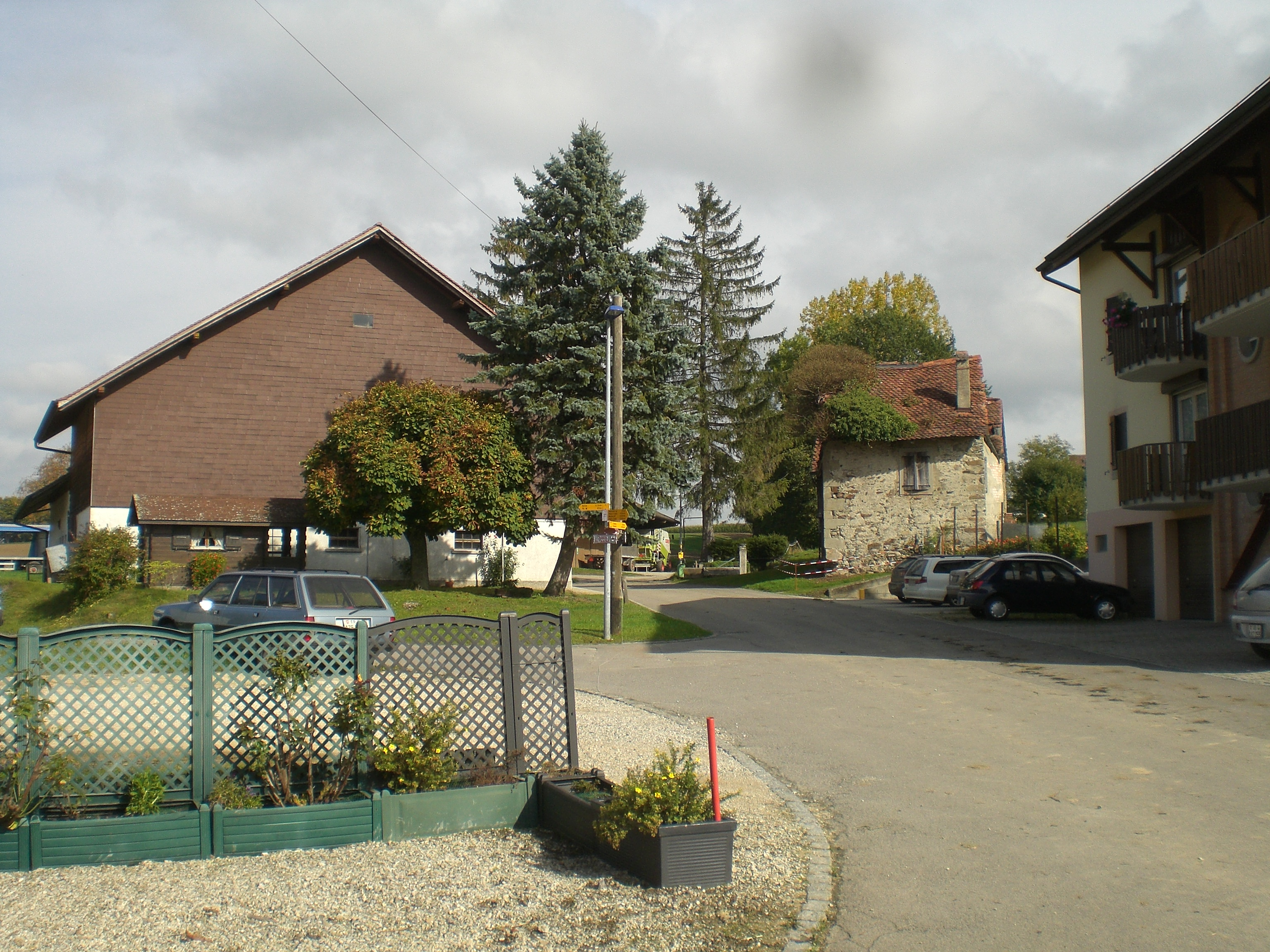 Farmhouse in Peyres-Possens, canton of Vaud, Switzerland